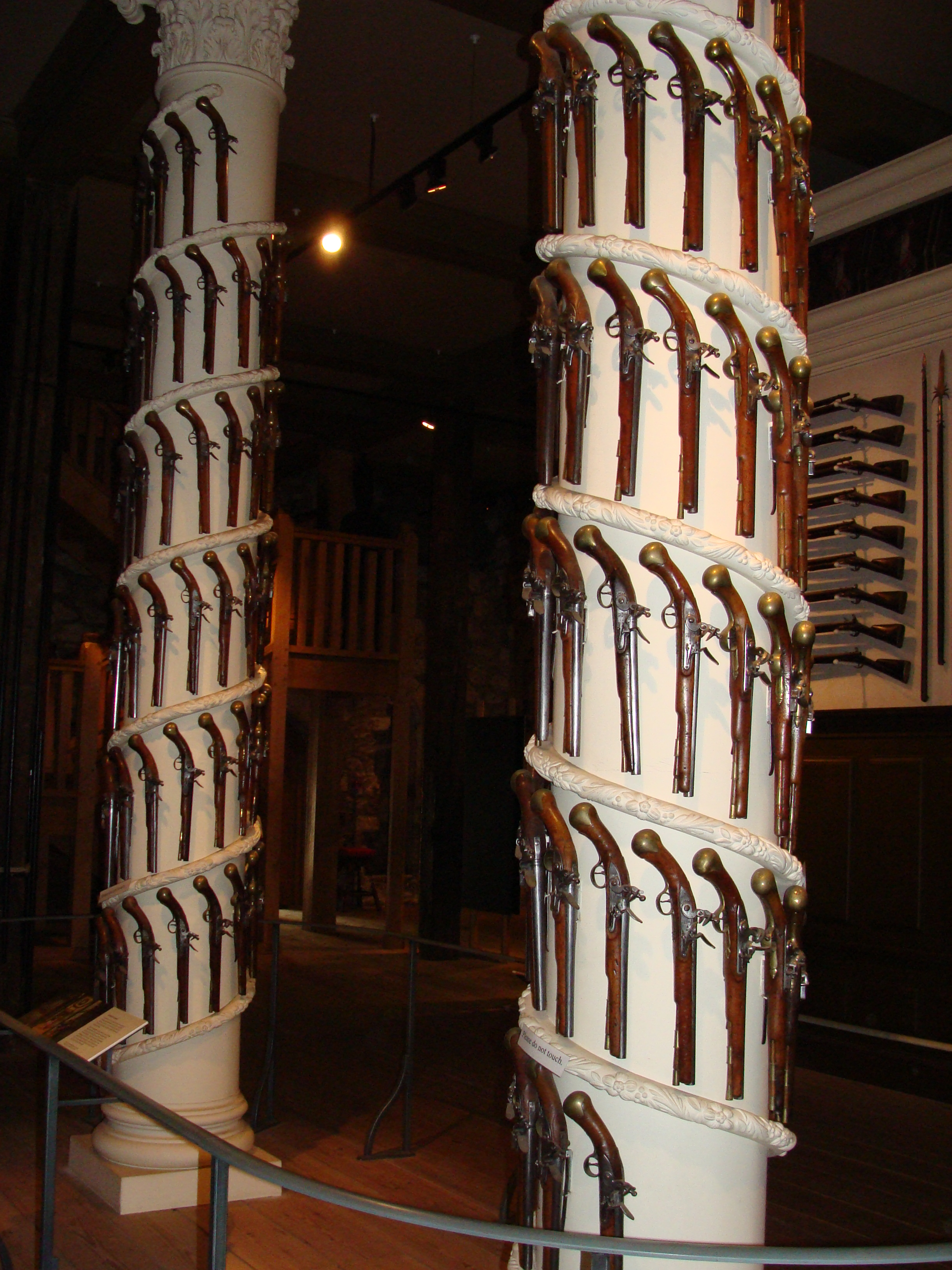 Weapons in the Tower of London